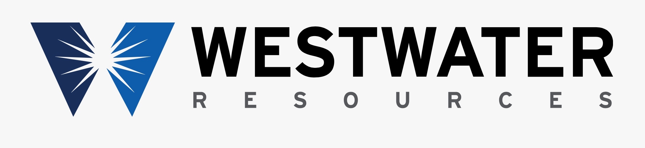 Westwater